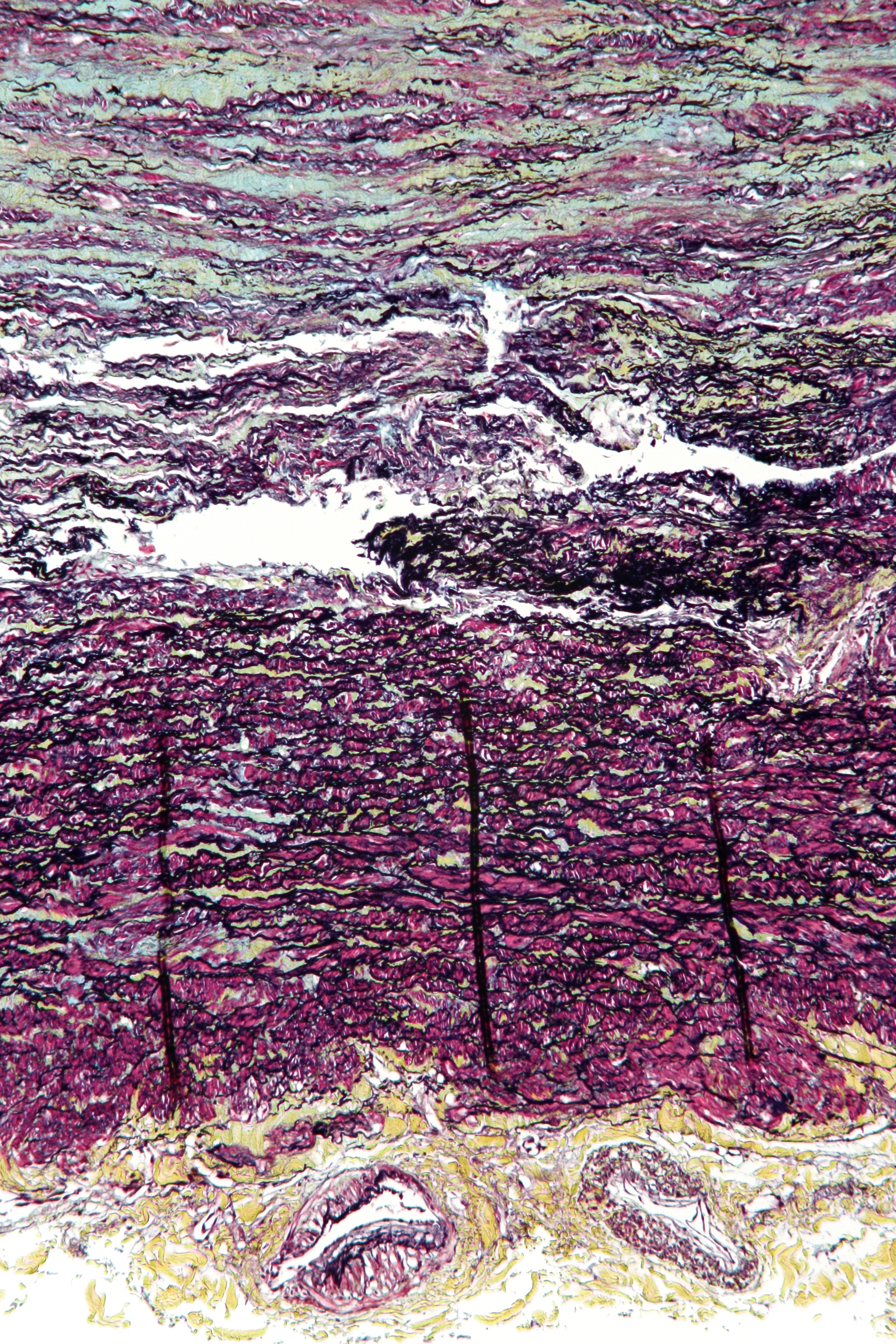 Intermediate magnification micrograph of cystic medial degeneration, abbreviated CMD. It is also known as cystic medial necrosis. Aortic repair. Movat stain. In pathology, there is no truth in names; cystic medial necrosis may lack necrosis and not be cystic. The characteristic features are: Basophilic ground substance in the media (seen on Movat's stain). Disruption of the elastic lamina (seen with an elastic stain). +/-Focal necrosis. Related images Very low mag. Low mag. Intermed. mag. High mag. Very high mag. Very low mag. Low mag. Low mag. Intermed. mag. High mag. Very high mag.